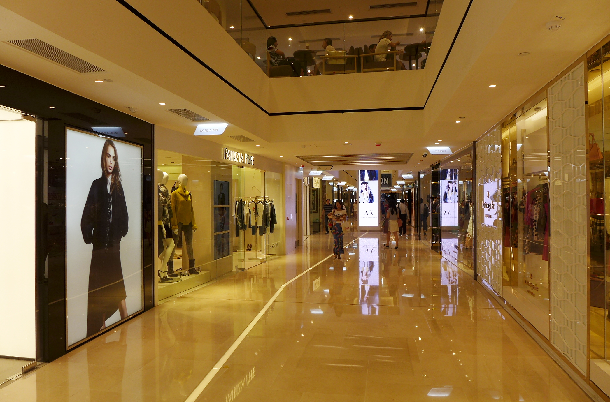 Fashion Walk